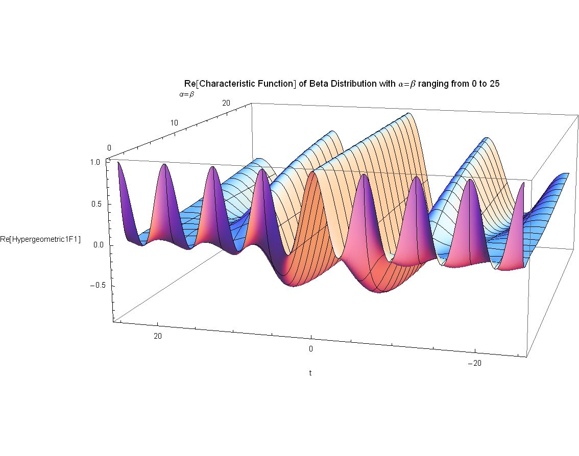 Re(CharacteristicFunction) Beta Distribution alpha=beta from 0 to 25 Front- J. Rodal